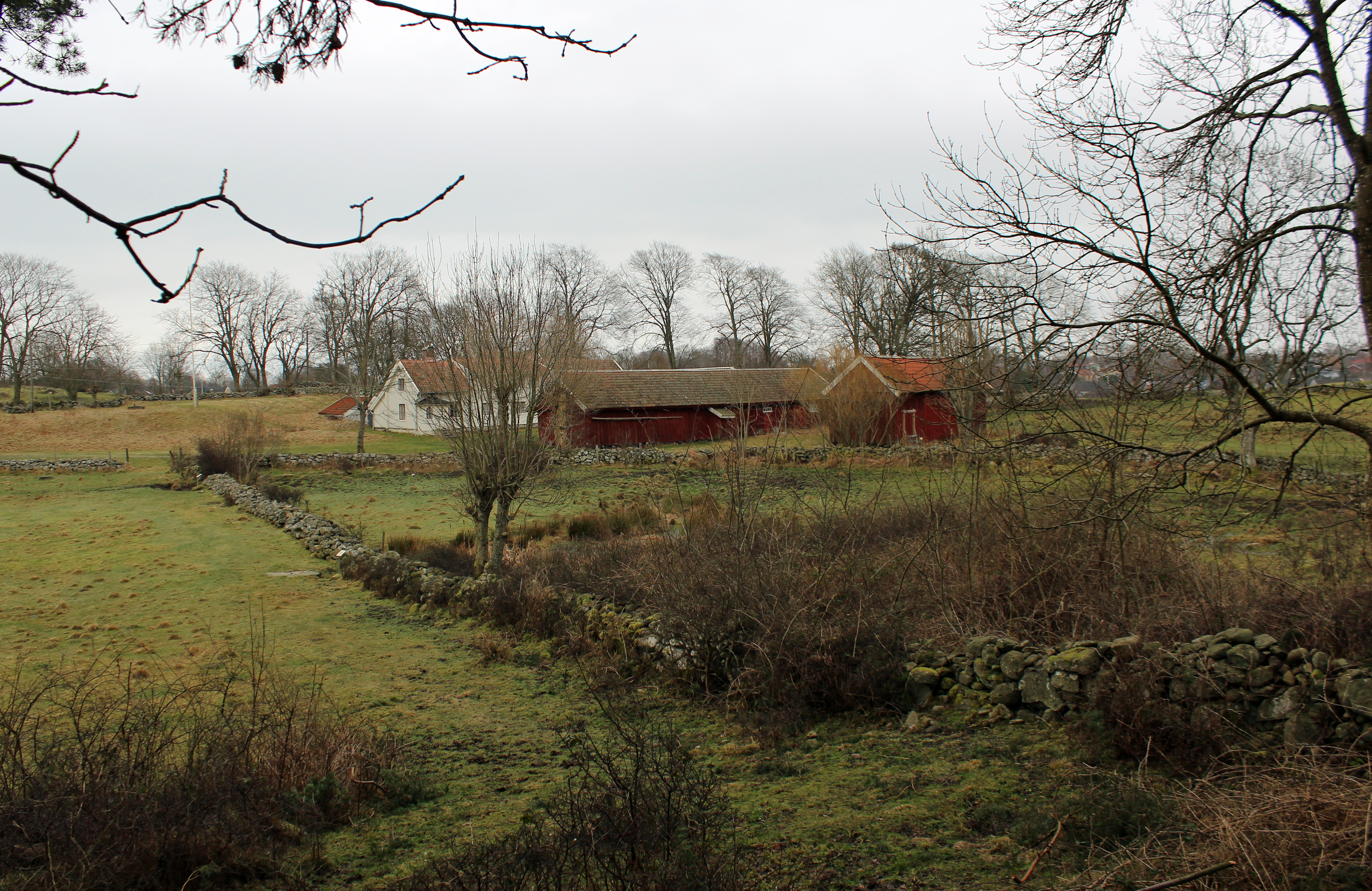 Mårtagården in Onsala, Halland, Sweden.